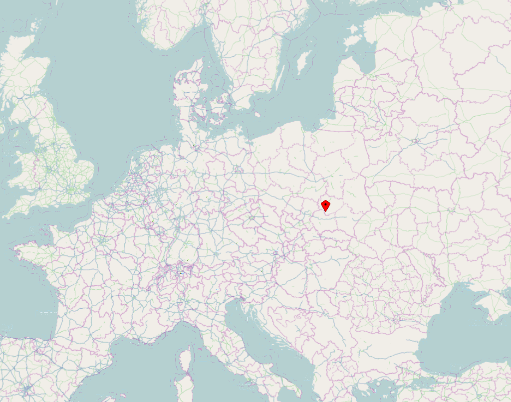 This map may be incomplete, and may contain errors. Don't rely solely on it for navigation.